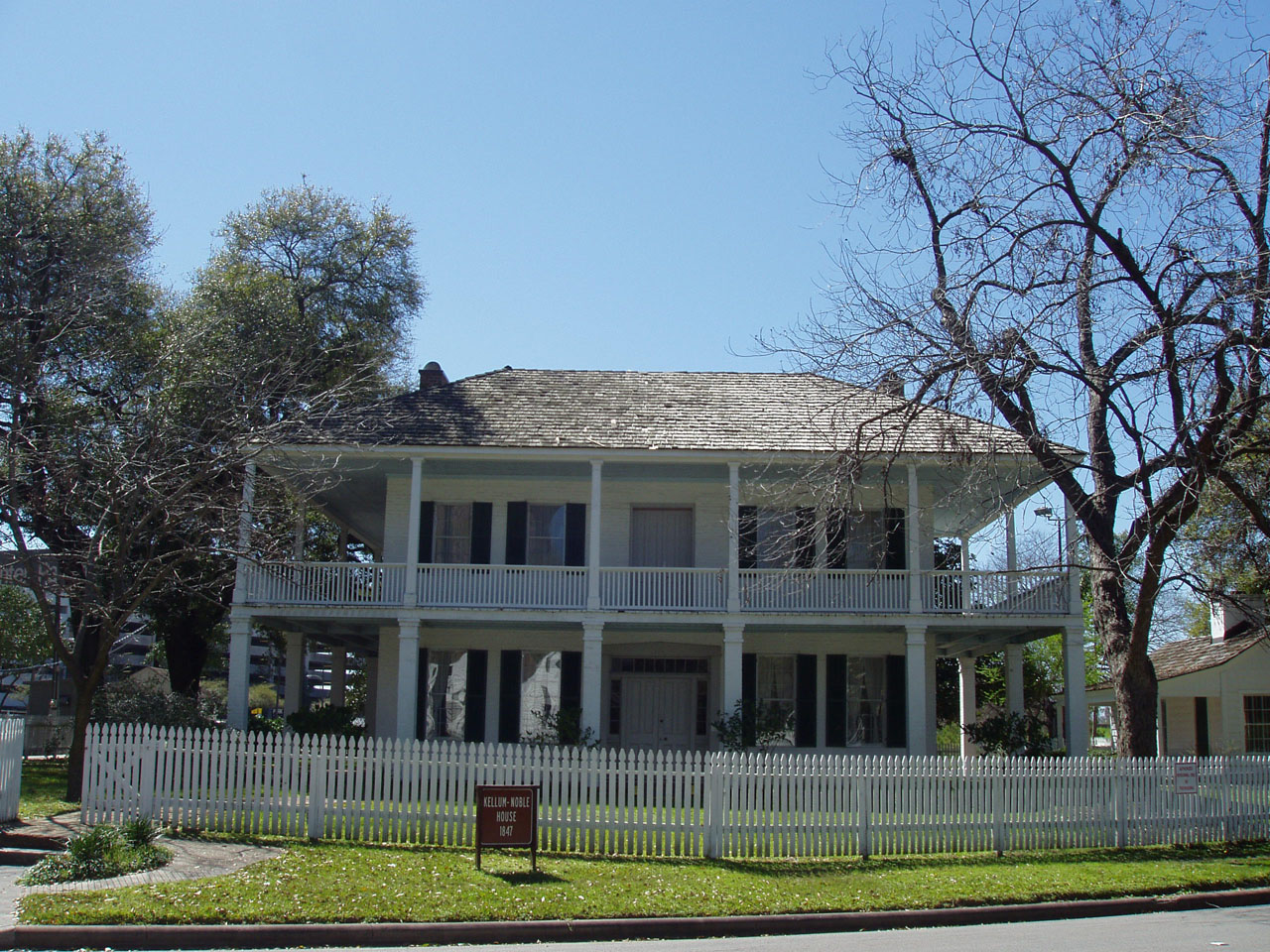 Author: sdburns on flickr The oldest surviving brick house in Houston was built by Nathaniel Kellum in 1847. A Virginian who came to Houston in 1839, Kellum operated a brick kiln, a tannery and saw mill on the property. During the 1850s Mrs. Zerviah M. Noble conducted one of Houston's first private schools in this house. Kellum-Noble is the only house in the Park on its original site. It is a "Historic American Building" located in Sam Houston Park.